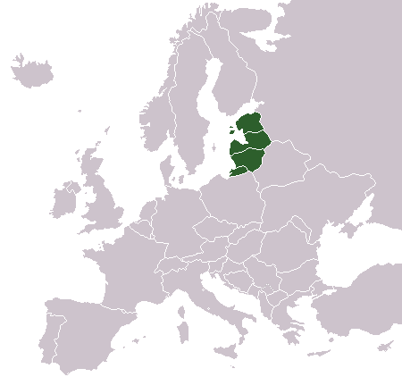 Locator map of the Baltic region – Estonia, Latvia and Lithuania and the russian Kaliningrad Oblast.